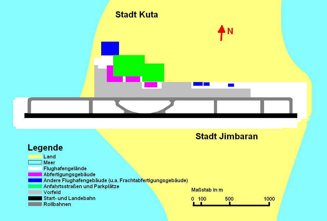 map of denpasar airport